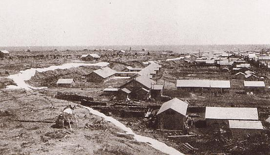 View of Nairo(Gastello Гастелло)